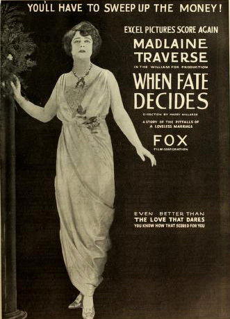 Advertisement for exhibitors, Moving Picture World, May 1919 for the American film When Fate Decides (1919) with Madlaine Traverse.